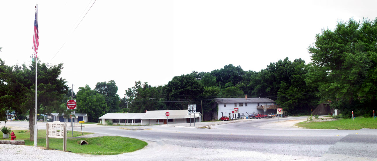 Downtown Gateway Arkansas